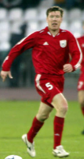 Andrei Fyodorov in action for FC Rubin